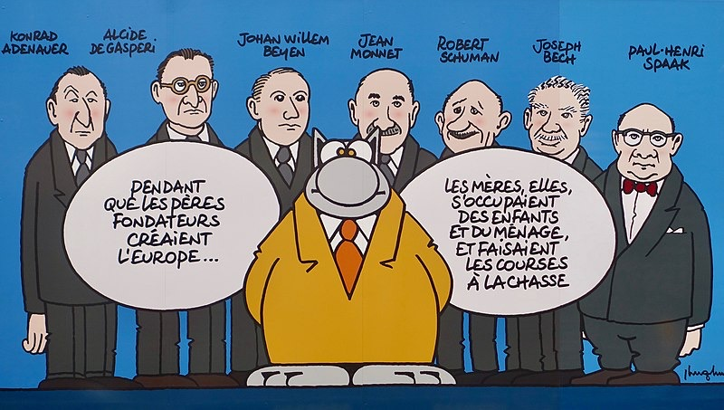 Le Chat 'La Chasse' cartoon on walls of police compound, Waversesteenweg, Etterbeek